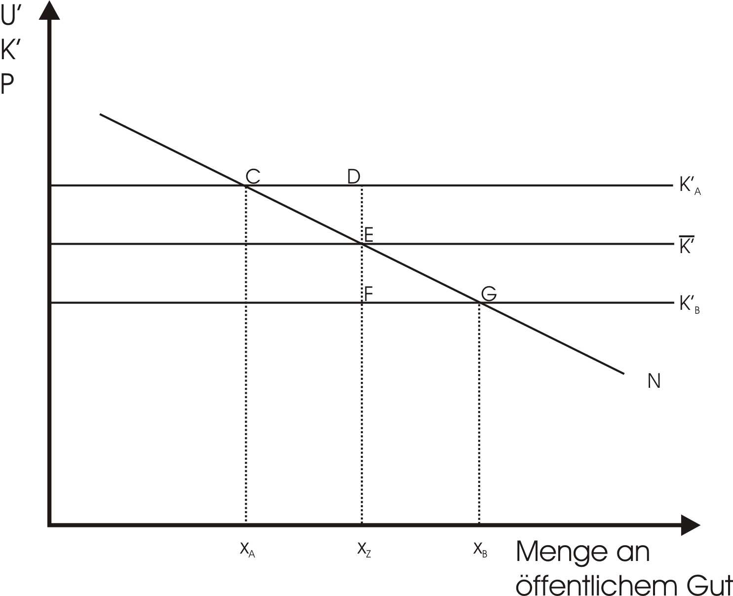 Decentralisation-Theorem part II.